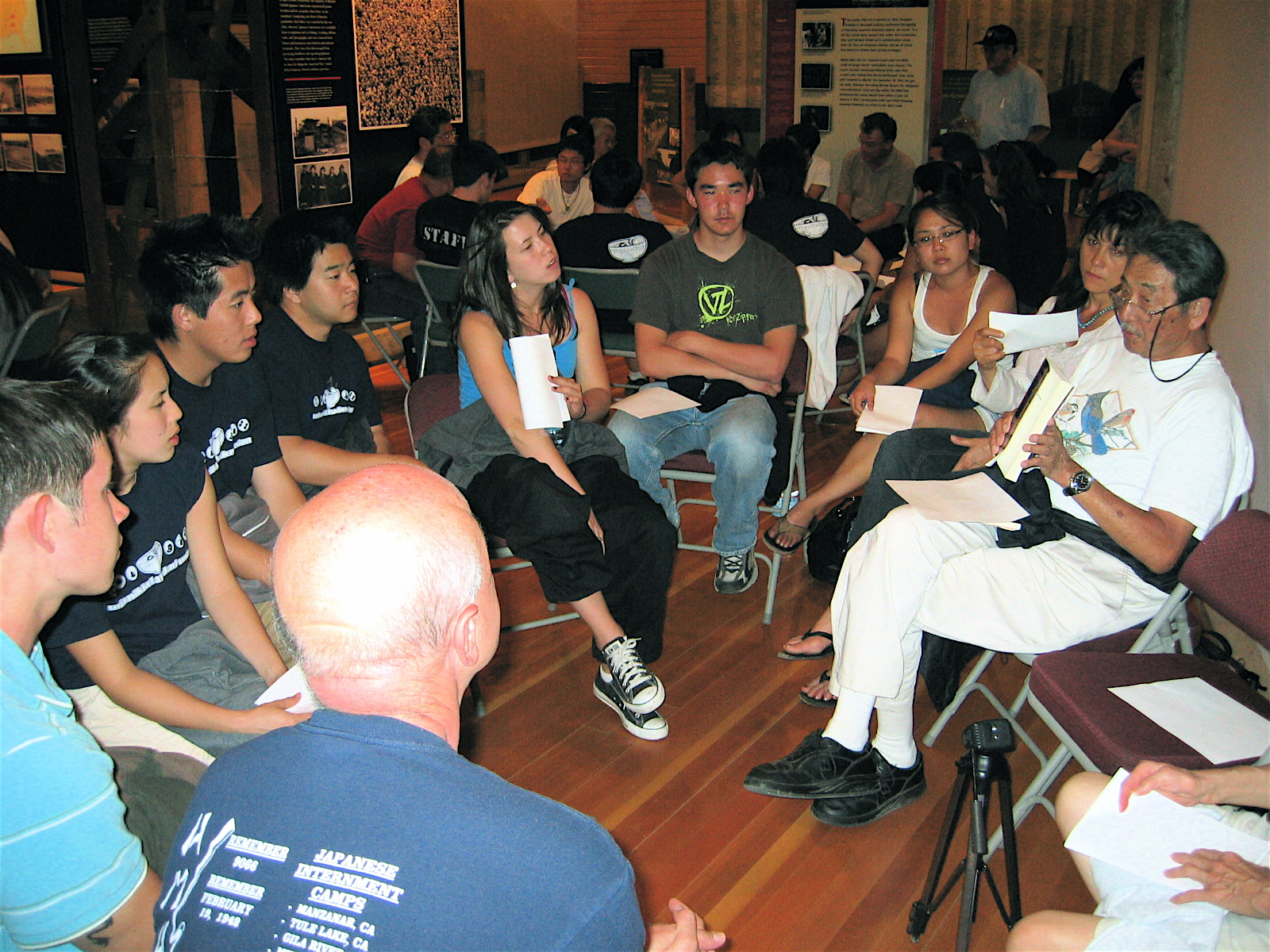 Manzanar At Dusk: In a small group session, former Manzanar prisoner Wilbur Sato (far right) relates his experiences behind the barbed wire to a diverse group of people, including a wide range of ages and ethnic groups